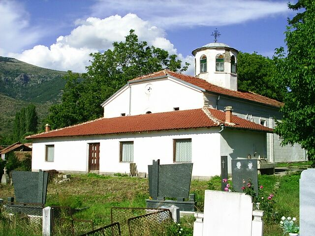 Ljubojno village in the Baba mountains, Republic of Macedonia